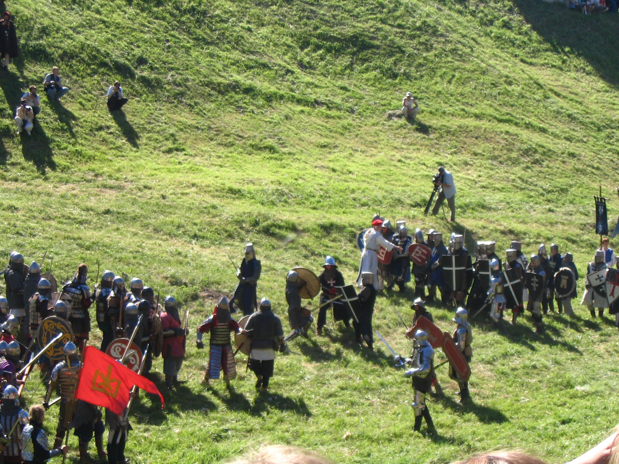 Batle reconstruction at Navarudak, Belarus